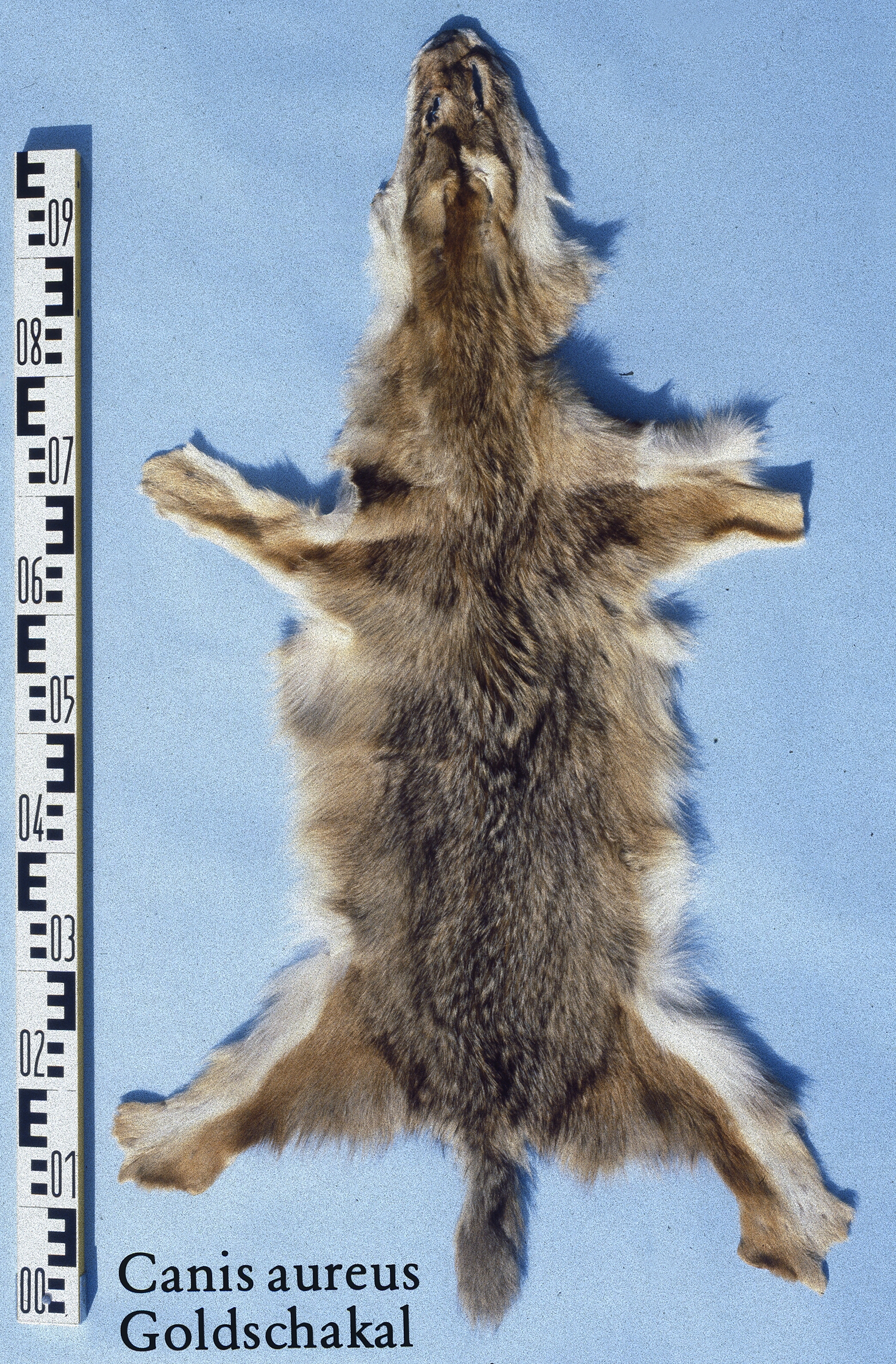 Common jackal fur skin (Canis aureus). Fur skin collection, Bundes-Pelzfachschule, Frankfurt/Main, Germany